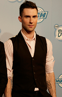 Adam Levine of Maroon 5 at the 2007 MuchMusic Video Awards, held the night of Sunday, June 17, 2007 in Toronto, Ontario, Canada.